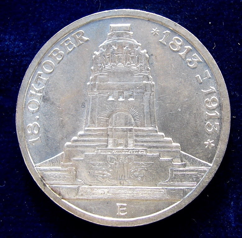 Saxony, German State, 3 Mark 1913 Silver Coin AU Monument to the Battle of the Nations 1813 - 1913, Battle of Leipzig Centennial. 16.69 g Ag 0.900 The monument to the Battle of the Nations, curved above: "18. OKTOBER *1813 = 1913*". Mint mark E below for Saxony./ Crowned Imperial Eagle, around: "*DEUTSCHES REICH date * DREI MARK *". Edge lettering: "GOTT MIT UNS". KM 1275. Medallist: Friedrich Wilhelm Hörnlein, Dresden 1873 - 1945 Dresden Condition: Almost UNCIRCULATED